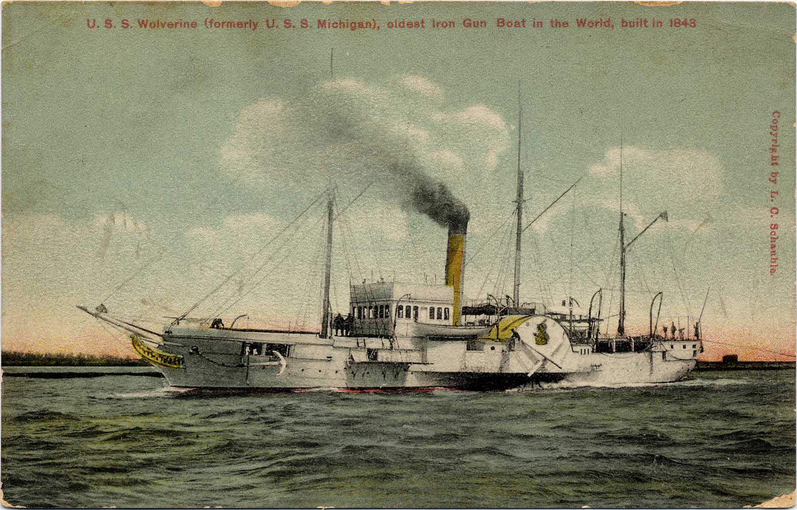 The iron sidewheeler USS Michigan (1843), as USS Wolverine (IX-31) late in her life.